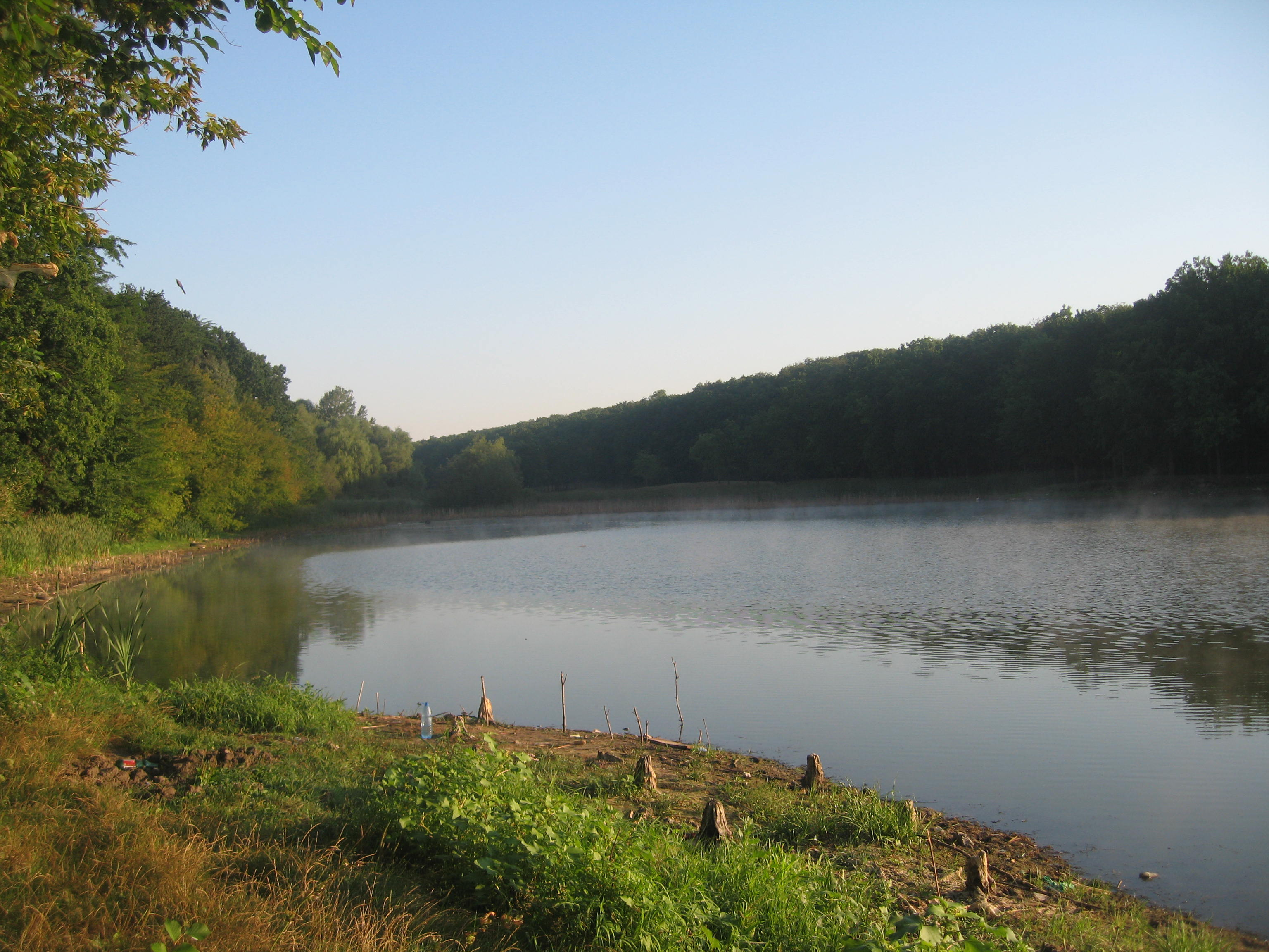 Barajul Ciric III